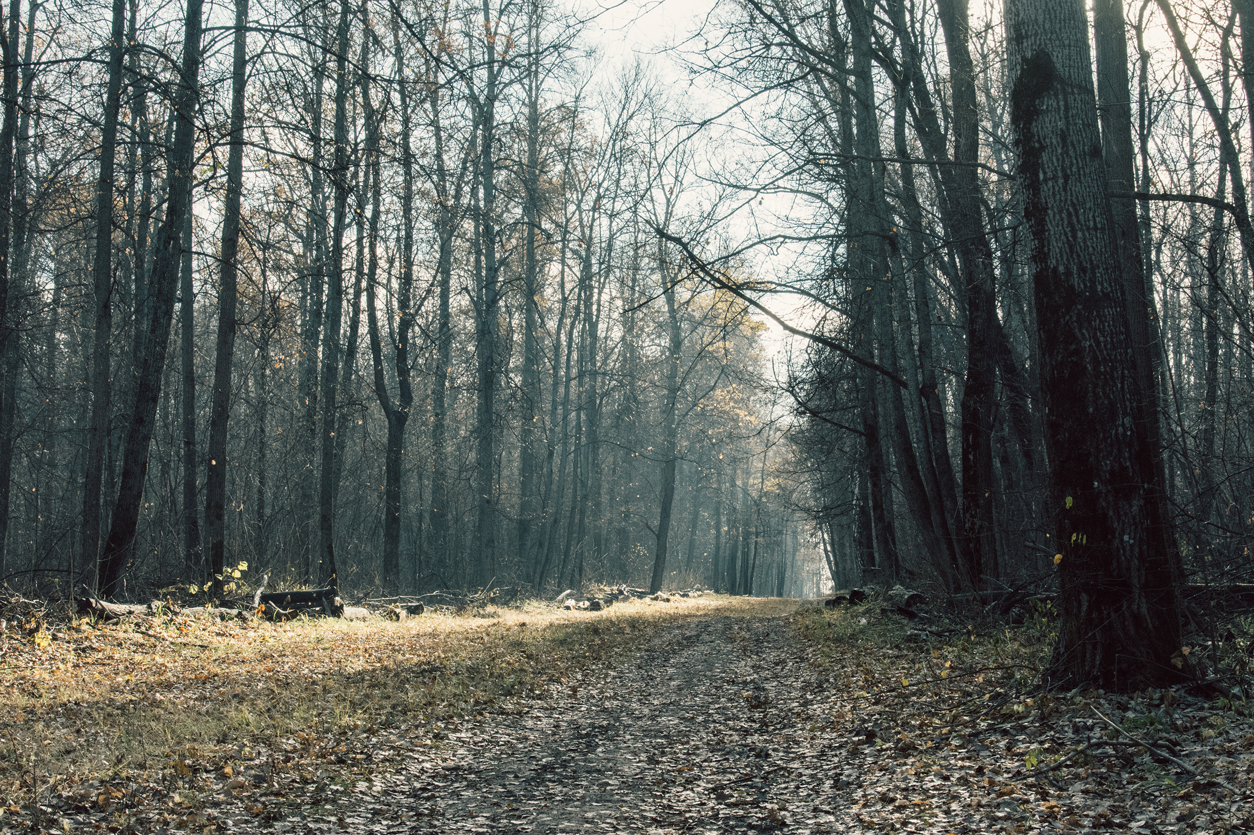 Arbekovo Forest: Penza This image is related to the protected area of Russia number 5810077